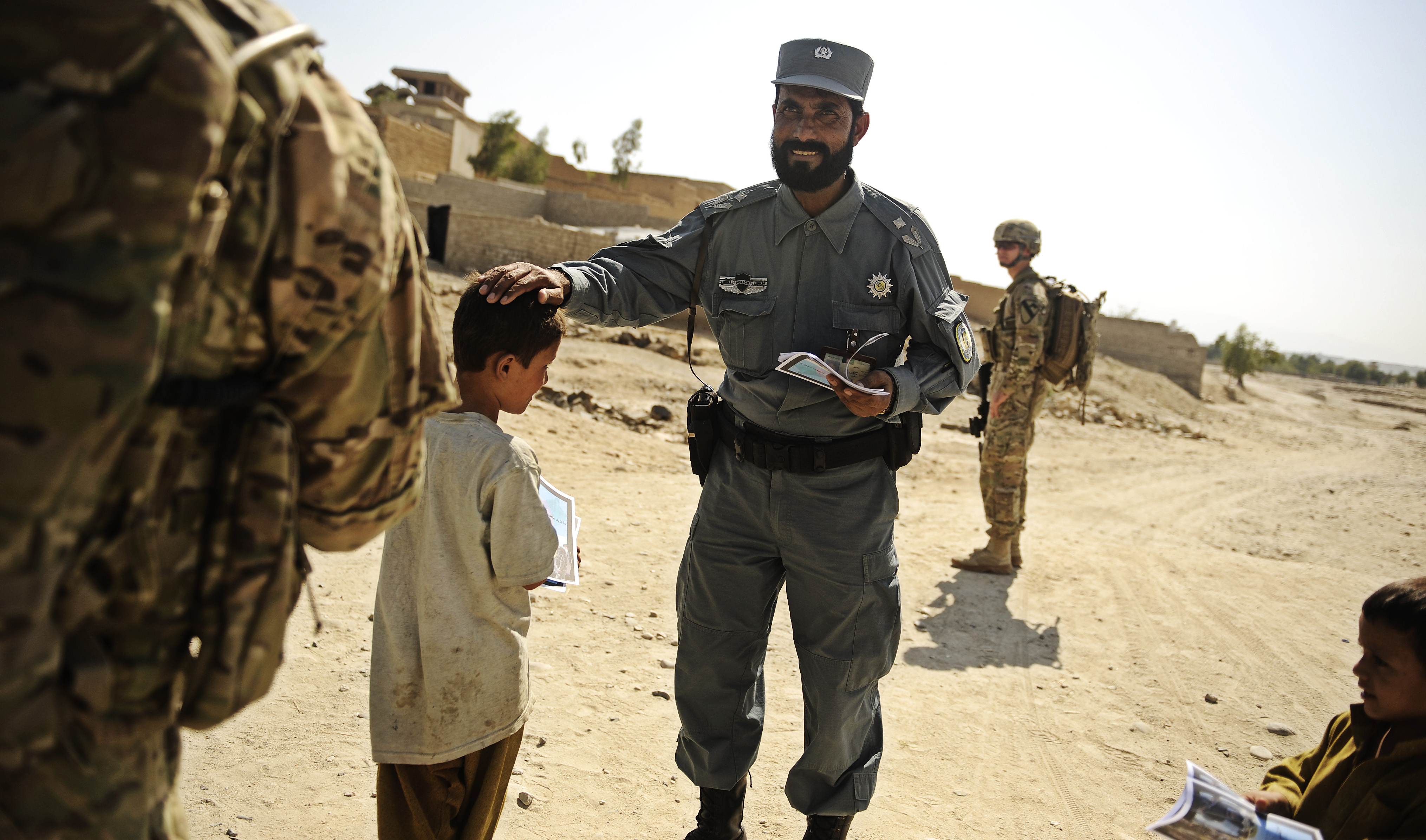 An Afghan police major pats a child on the head after speaking with him while on a joint patrol with the Laghman Provincial Reconstruction Team in the Mehtar Lam district in Afghanistan's Laghman province, Sept. 26, 2011.